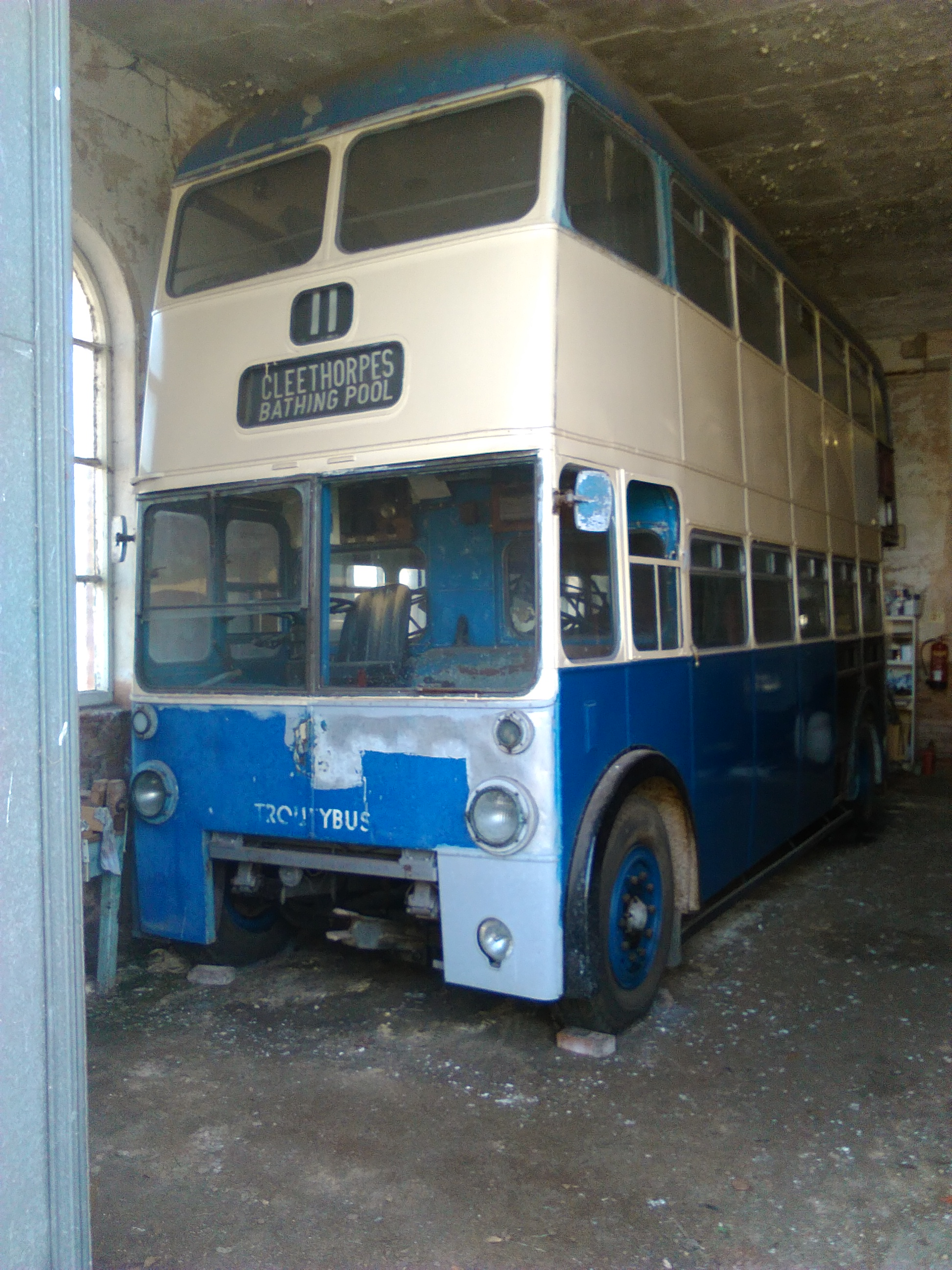 Grimsby-Cleethorpes trolleybus 159 operated in Walsall after it was sold, but is being restored to its condition when it was owned by Grimsby-Cleethorpes Transport between 1957 and 1960.